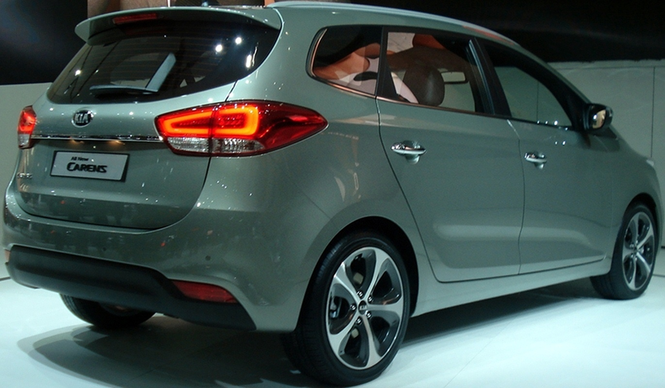 Kia All New Carens